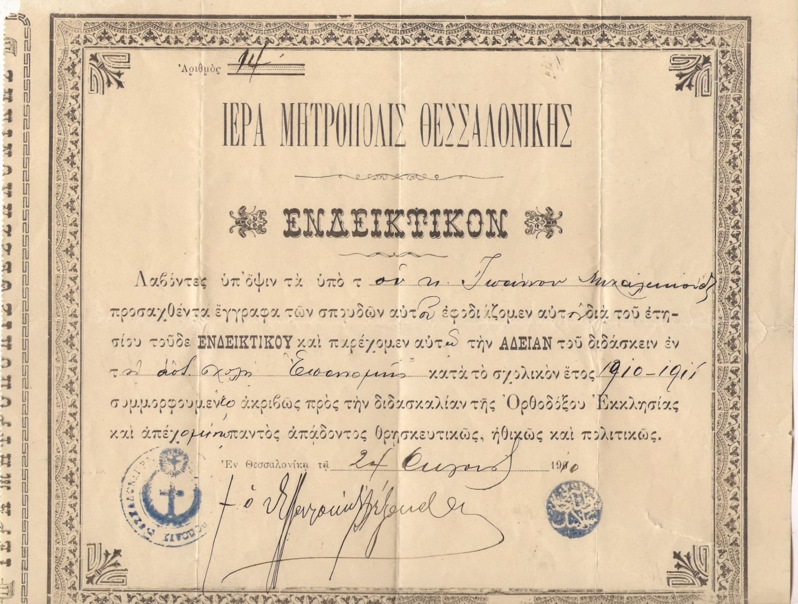 Document of Thessaloniki Metropoly.